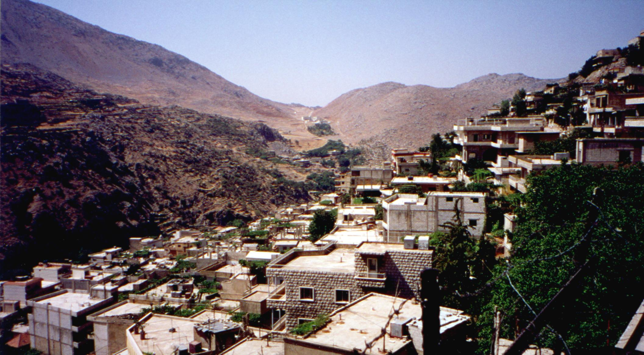 Picture taken by Håkon Dahlmo during my service in the UN forces in Lebanon, 1998.